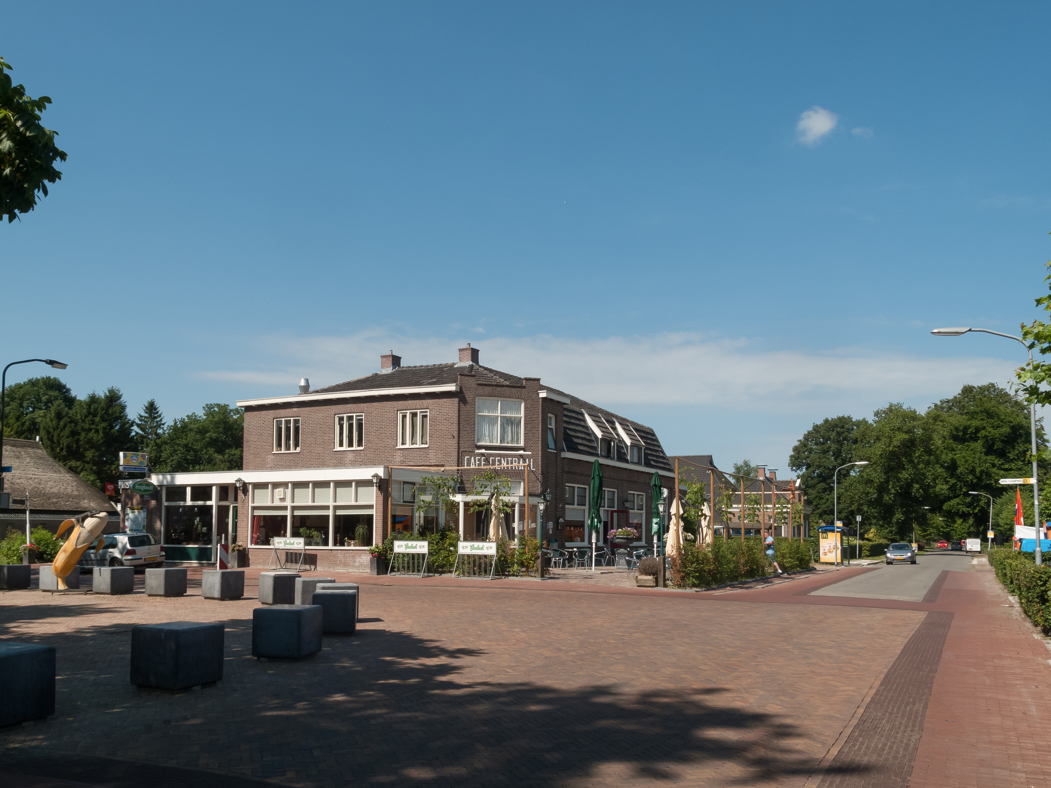 Tynaarlo, view to a street